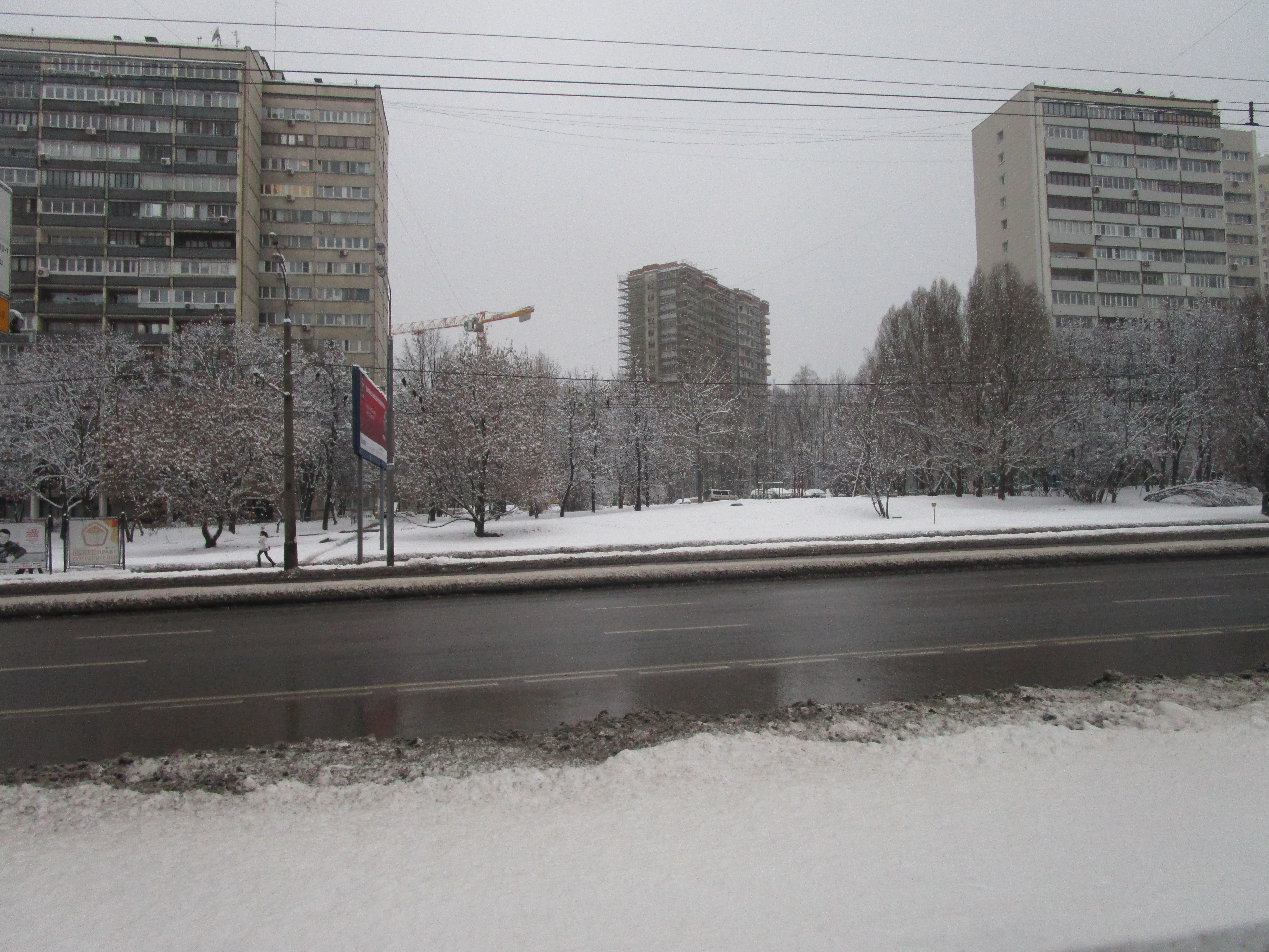 Snowy view on prospekt Vernadskogo street (Moscow)